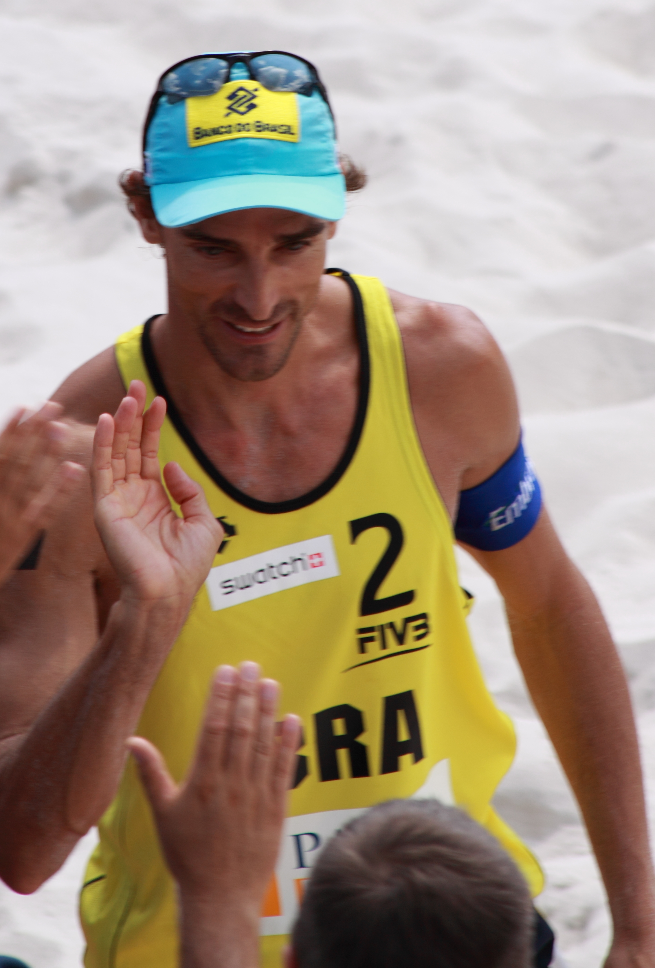 Emanuel Rego after winning Patria Direct Open 2011